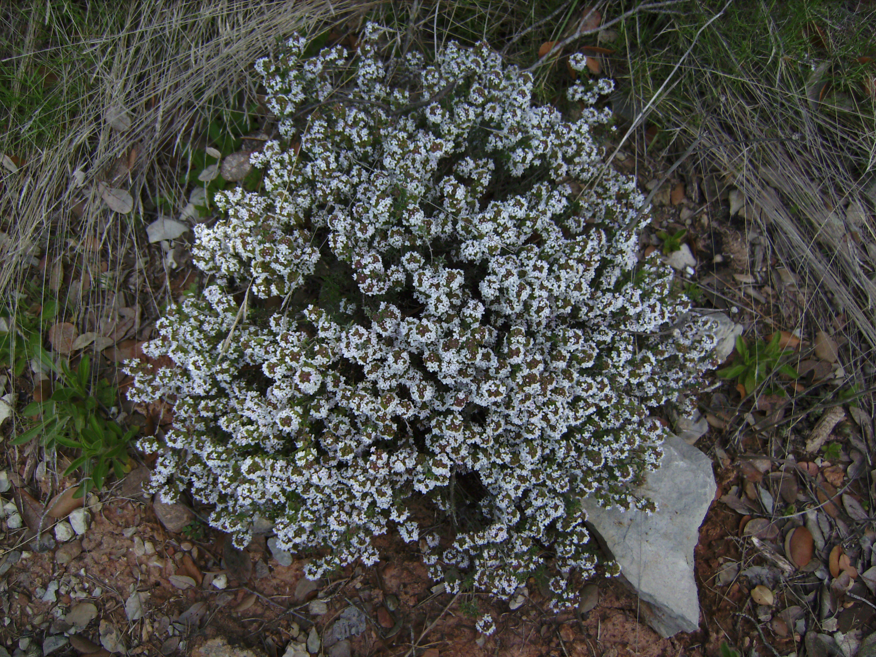 Thymus vulgaris, Catalonia